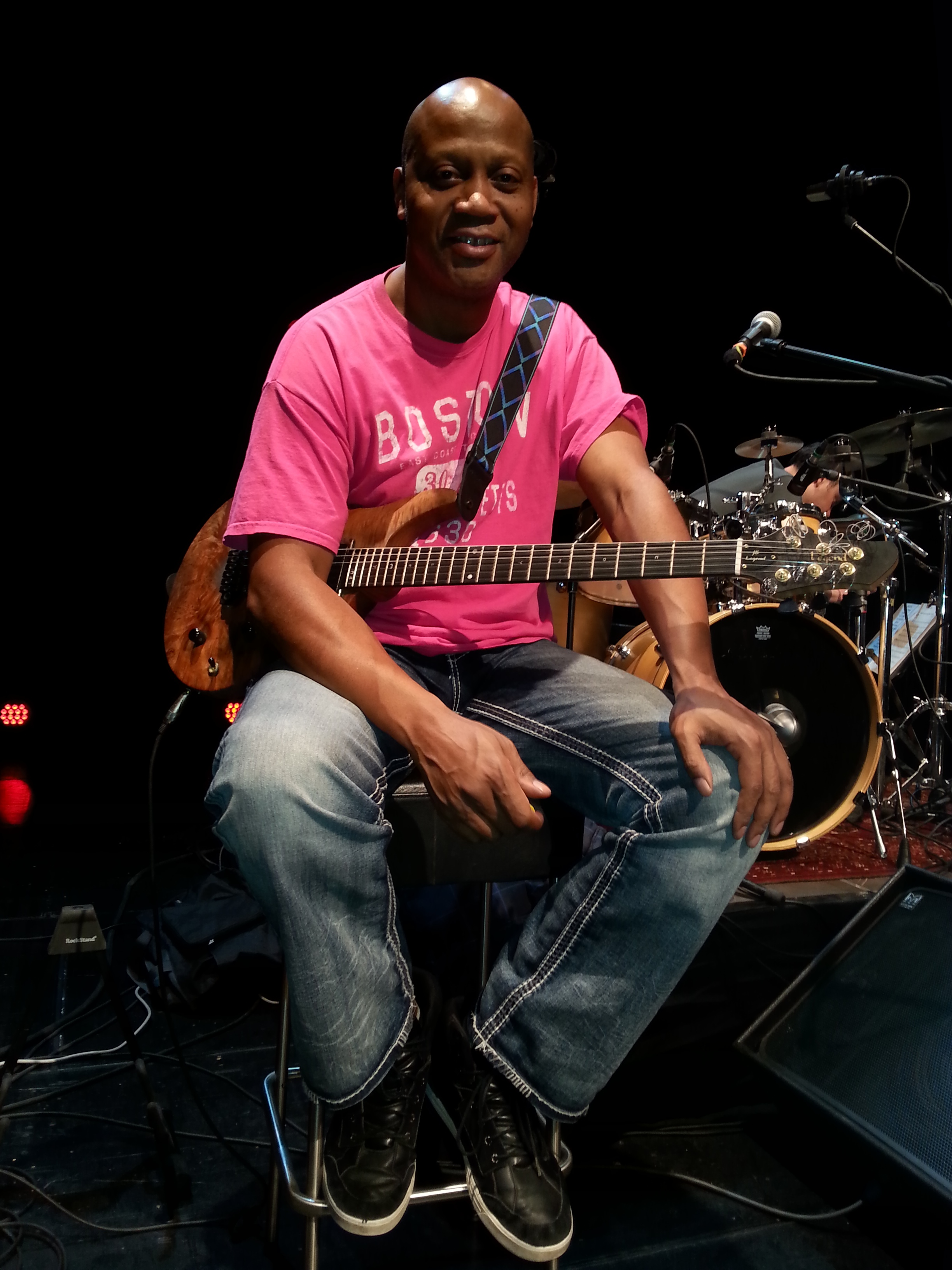 Guitarist Tony Remy